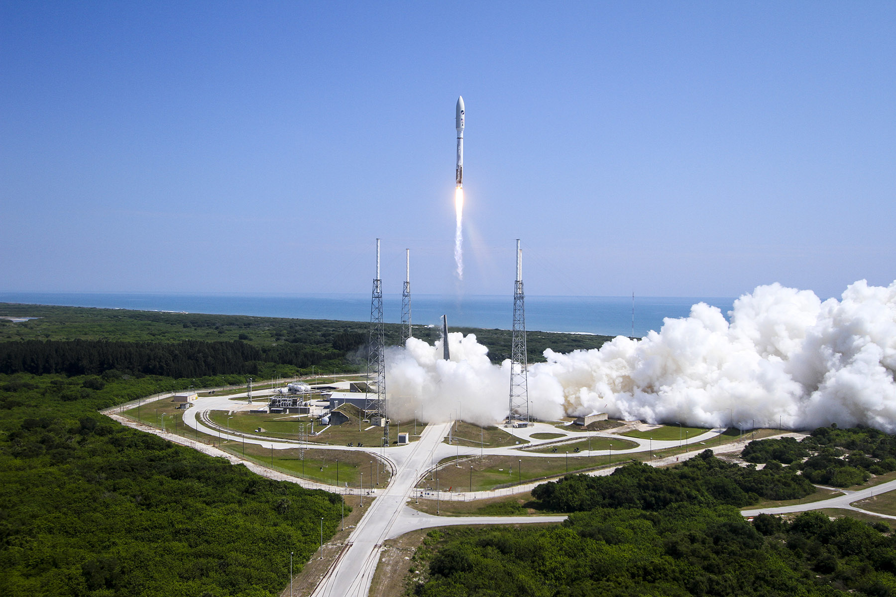 The Air Force and its mission partners successfully launched the AFSPC-5 mission aboard the Space and Missile Systems Center procured United Launch Alliance Atlas V launch vehicle at Cape Canaveral Air Force Station, Florida, May 20, 2015. The Atlas V rocket carried into Low Earth Orbit an X-37B Orbital Test Vehicle, marking the fourth space flight for the X-37B program. (Courtesy photo by United Launch Alliance)